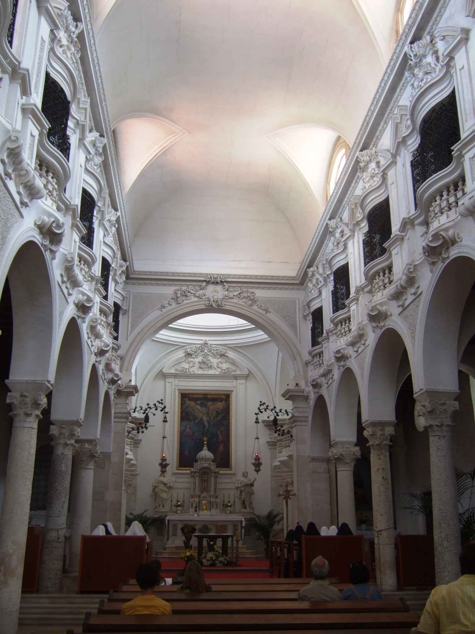 Church of St. Mary in Zadar (Croatia), interior